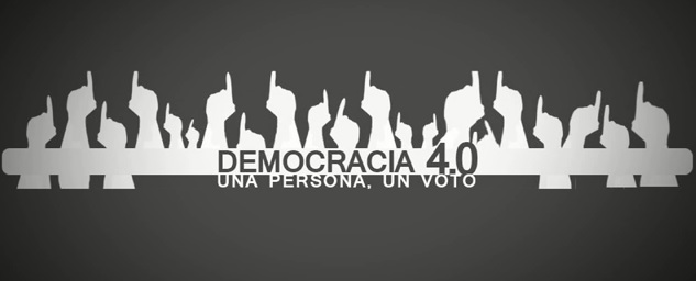 logo demo4punto0 (democracia 4.0) minute 2:04